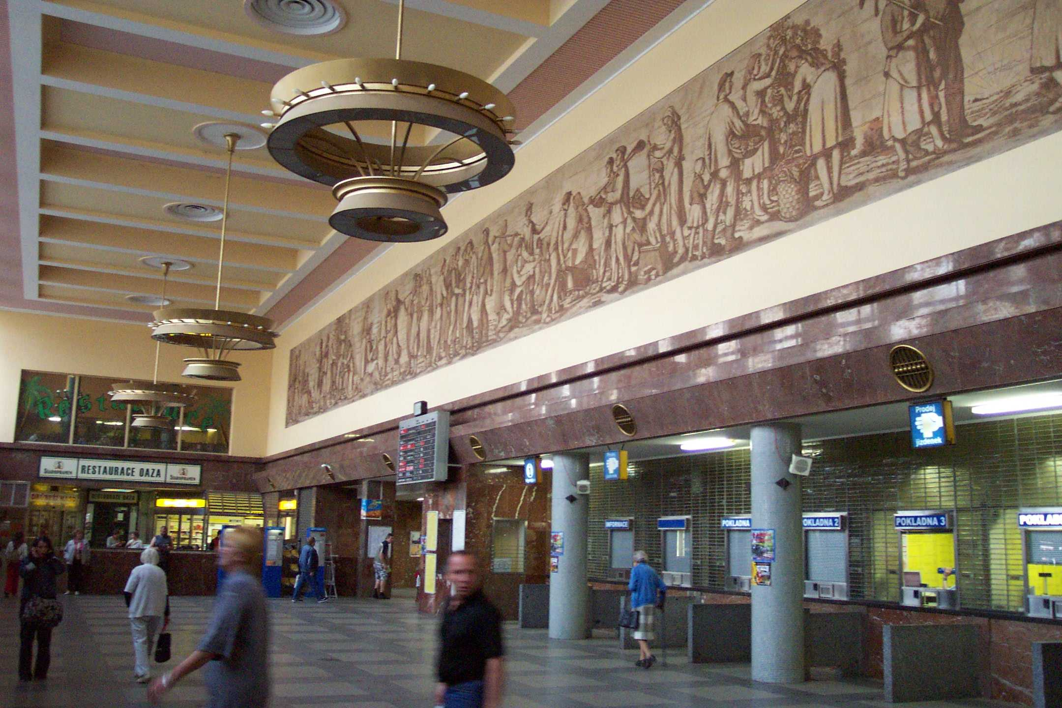 Decoration at Smíchovské nádraží in Prague.